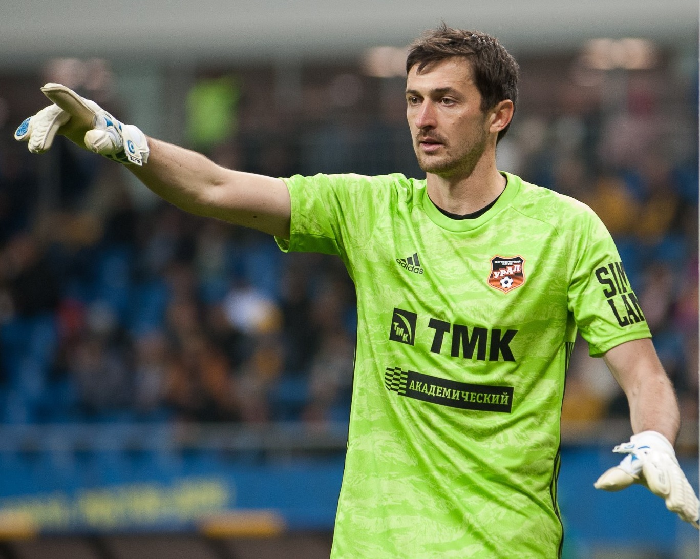 Yaroslav Hodzyur with FC Ural Yekaterinburg in a game against FC Rostov.